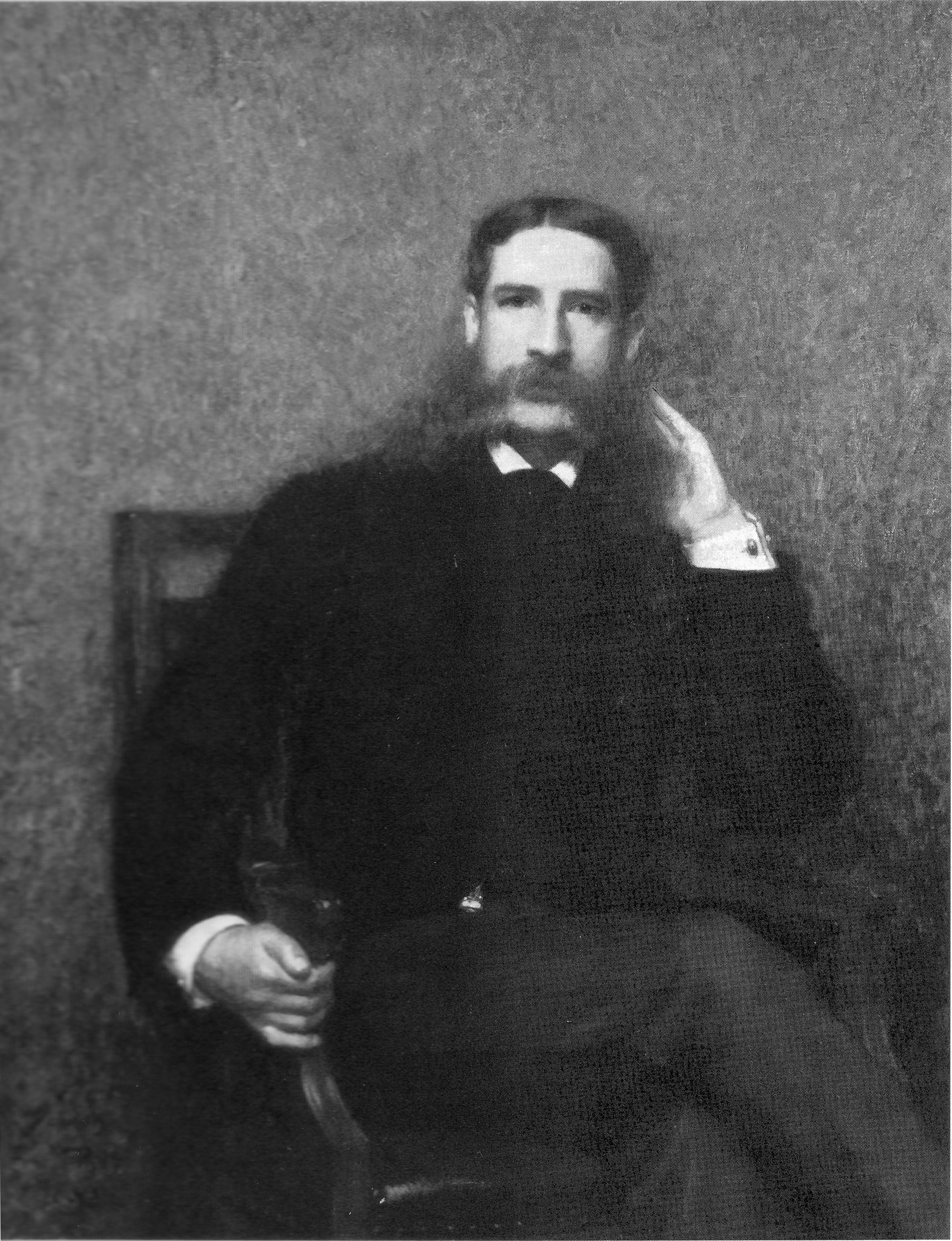 Painting of Edward Hornor Coates. 50 x 40 in. (cm. 127.0 x 101.6), Oil on canvas. Owned by the Pennsylvania Academy of the Fine Arts (Link)